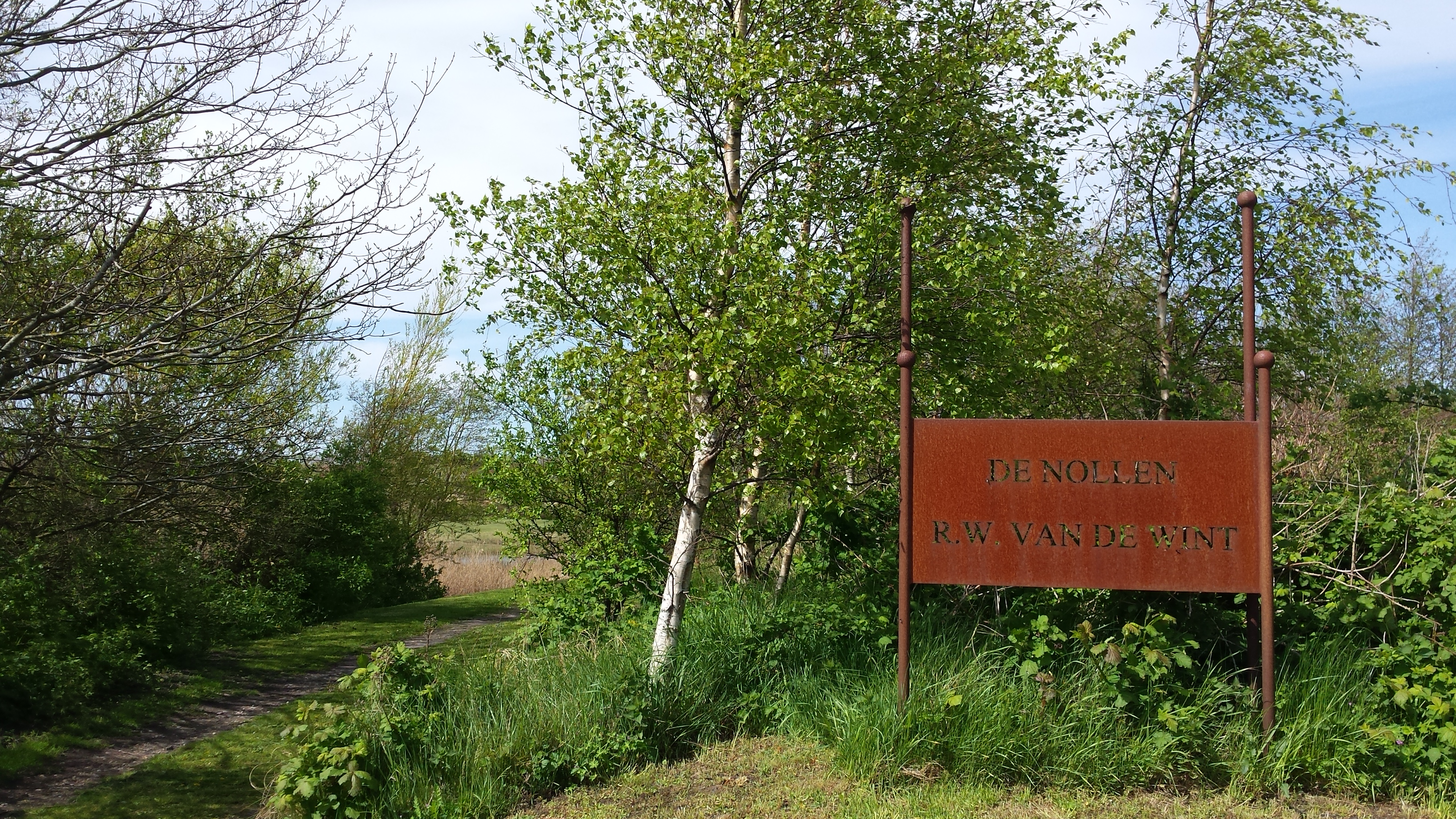 De Nollen landscape in Den Helder